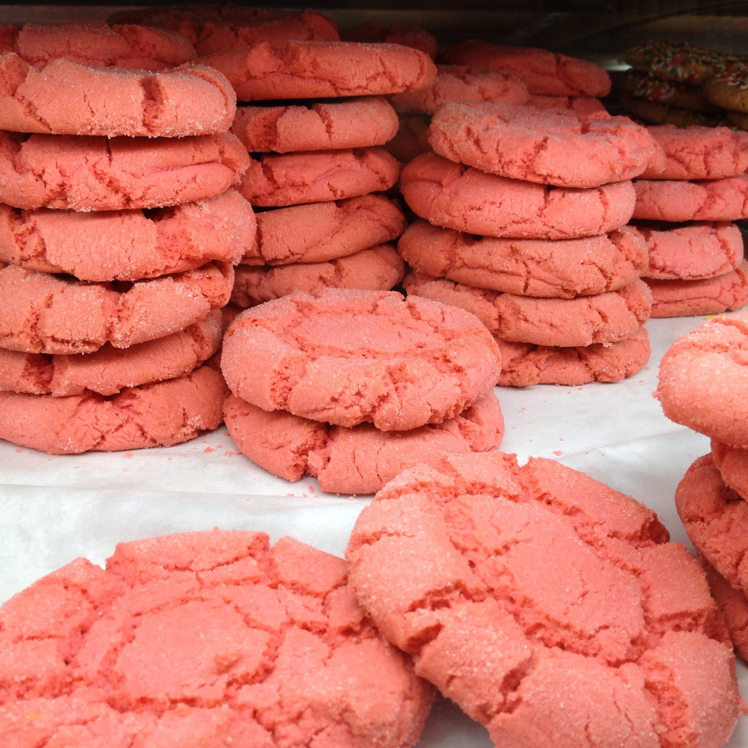 Pan Dulce, Casa Lupe Market #pink #bread #pastry #gridley